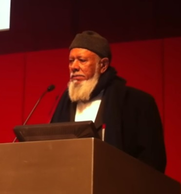 The Right Honourable Adam Hafejee Patel, Baron Patel of Blackburn